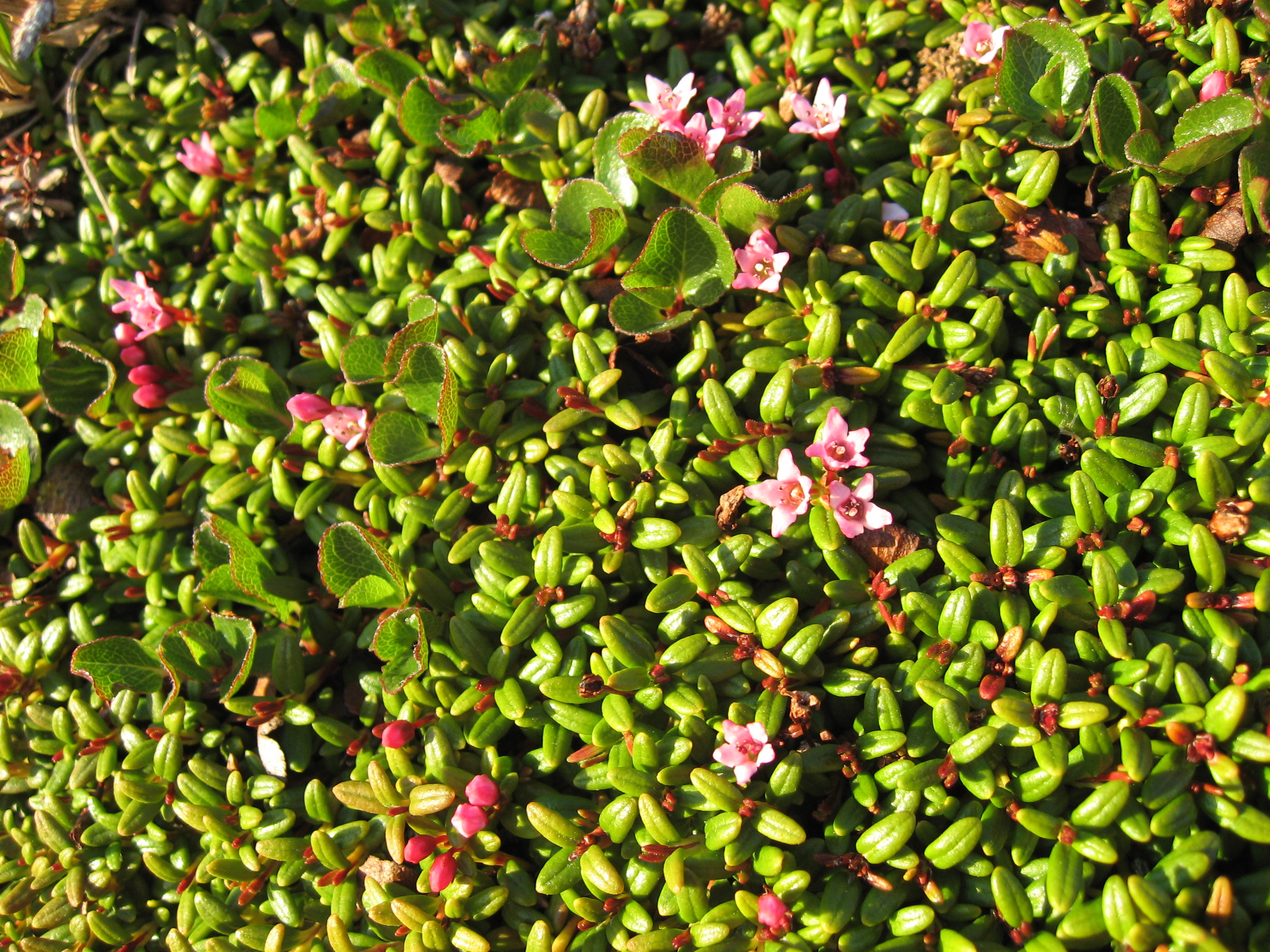 Loiseleuria procumbens in early flowering stage and leaves of Salix herbacea near Upernavik, Greenland.